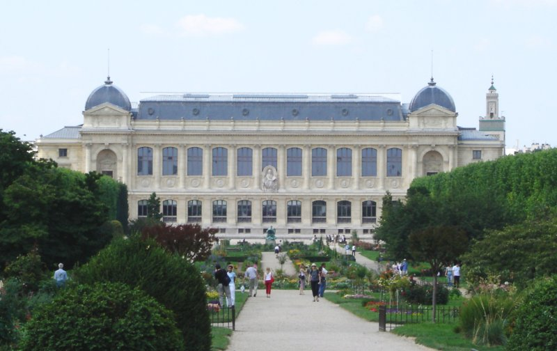 From the place Valhubert, in Paris, a terminating vista of the Jardin des plantes with the grande galerie de l'Évolution ('Gallery of Evolution'), one of the museum buildings within the French National Museum of Natural History.